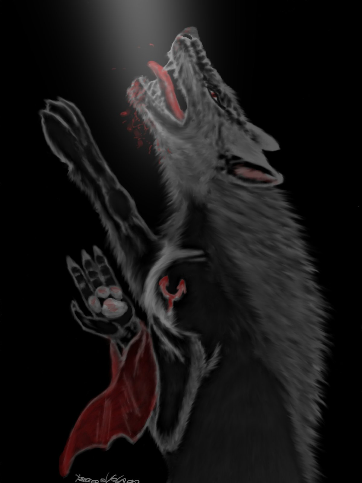 The french werewolf "voirloup"